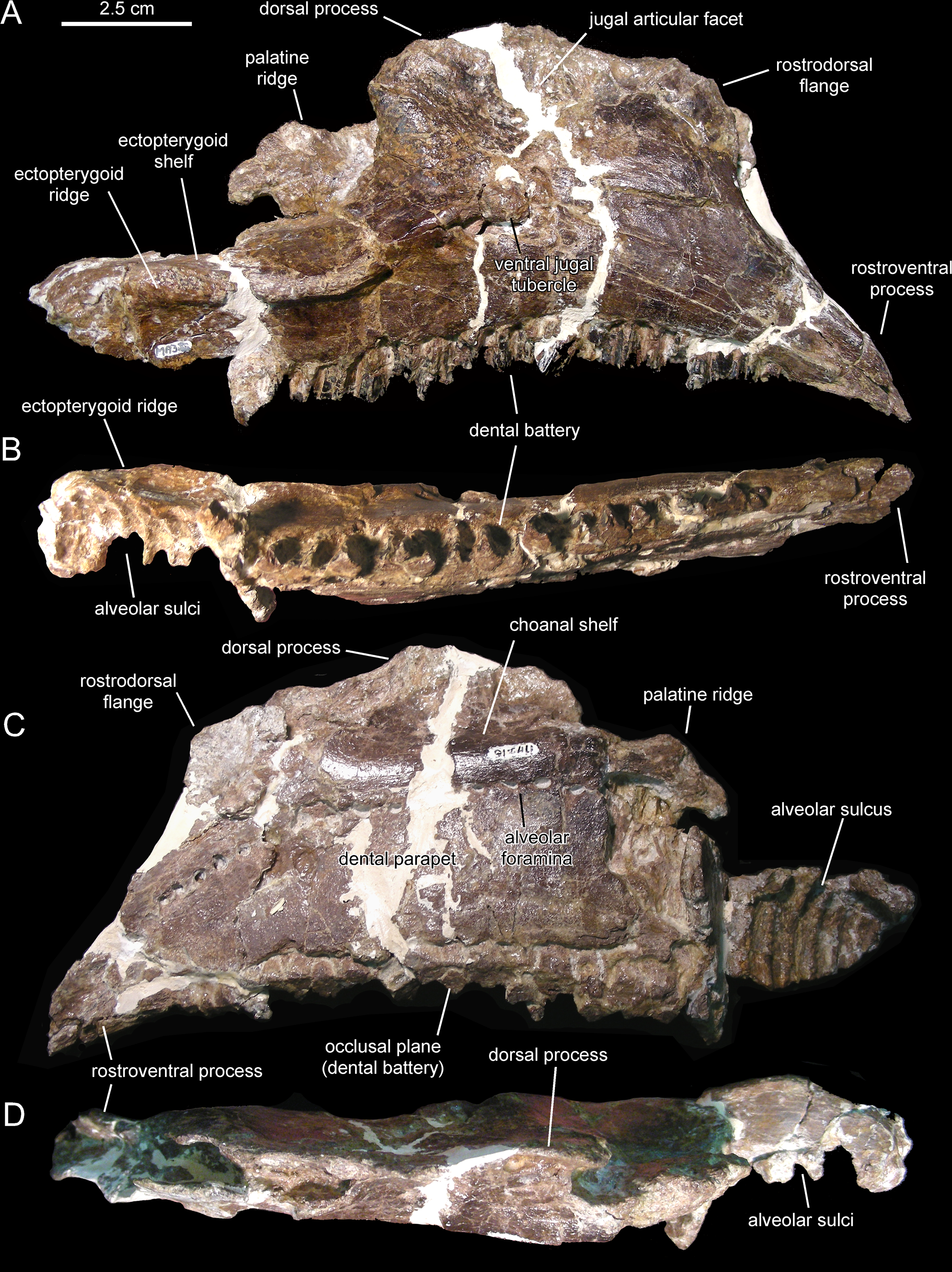 Canardia garonnensis, MDE-Ma3–16 (holotype), right maxilla. Maxilla in lateral (A), ventral (B), medial (C), and dorsal (D) views.